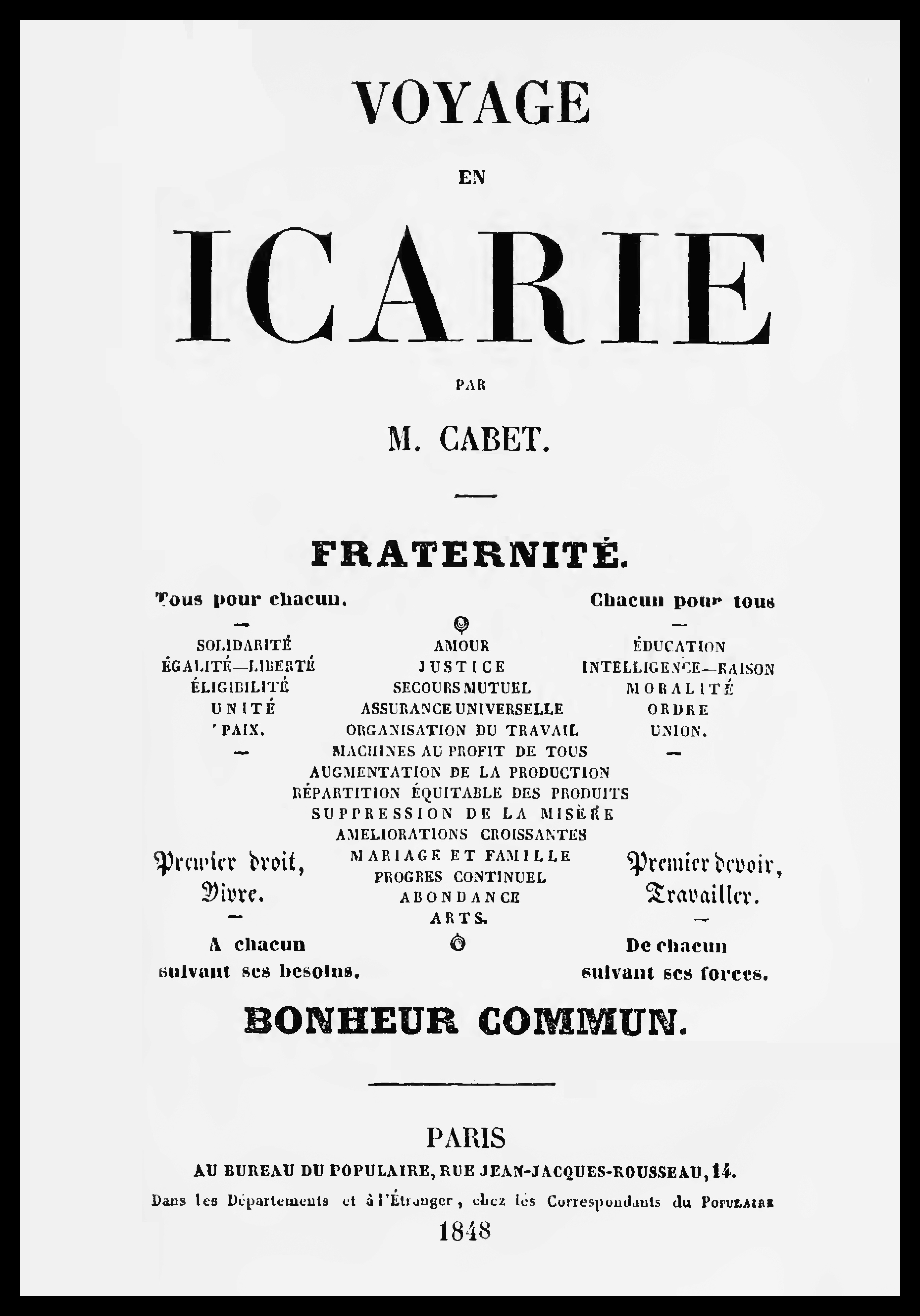 Title page of Voyage en Icarie (Paris 1848 edition), by Etienne Cabet (1788-1856)